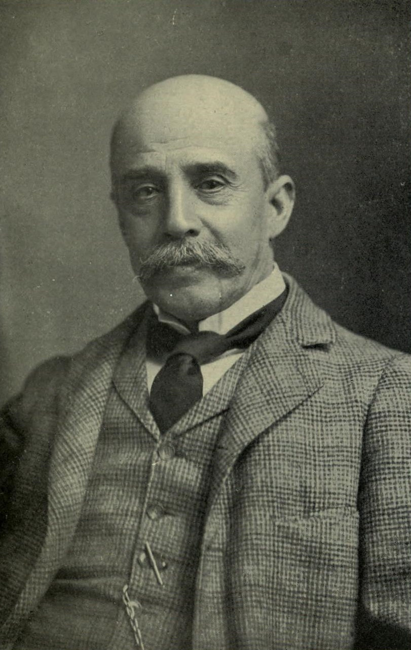 Portrait of Paul Belloni Du Chaillu